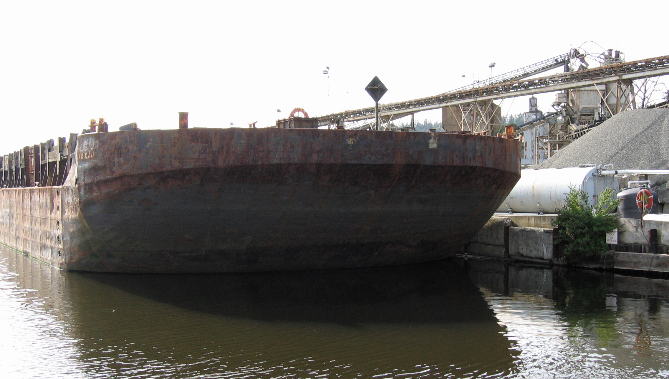 Image by me (Dara Korra'ti/Dawnstar Graphics) of a cement barge offloading materials to Kenmore Ready-Mix in Kenmore, Washington.